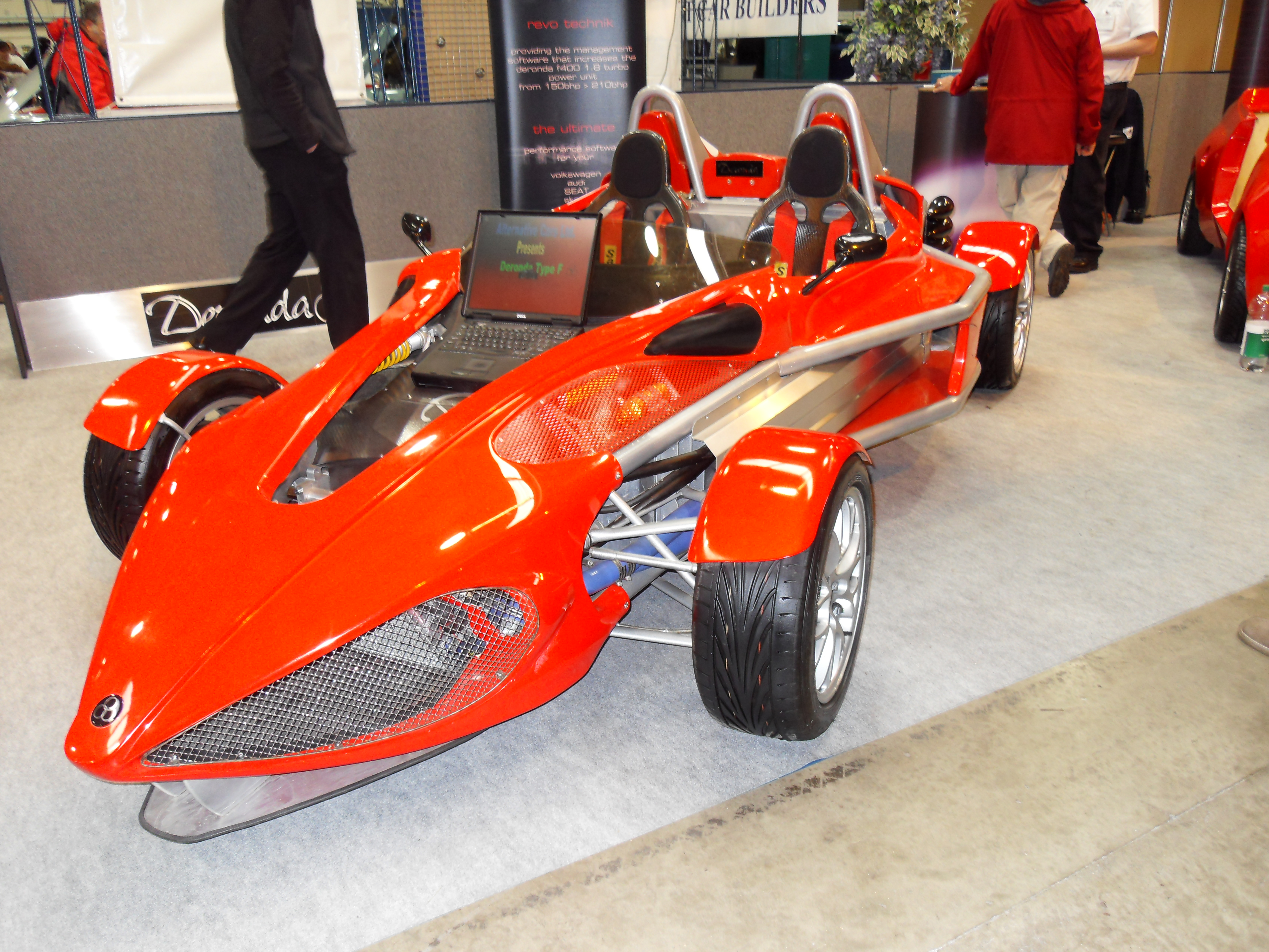 VLUU L310 W / Samsung L310 W taken at The National Kit Car Show Stoneleigh 2009